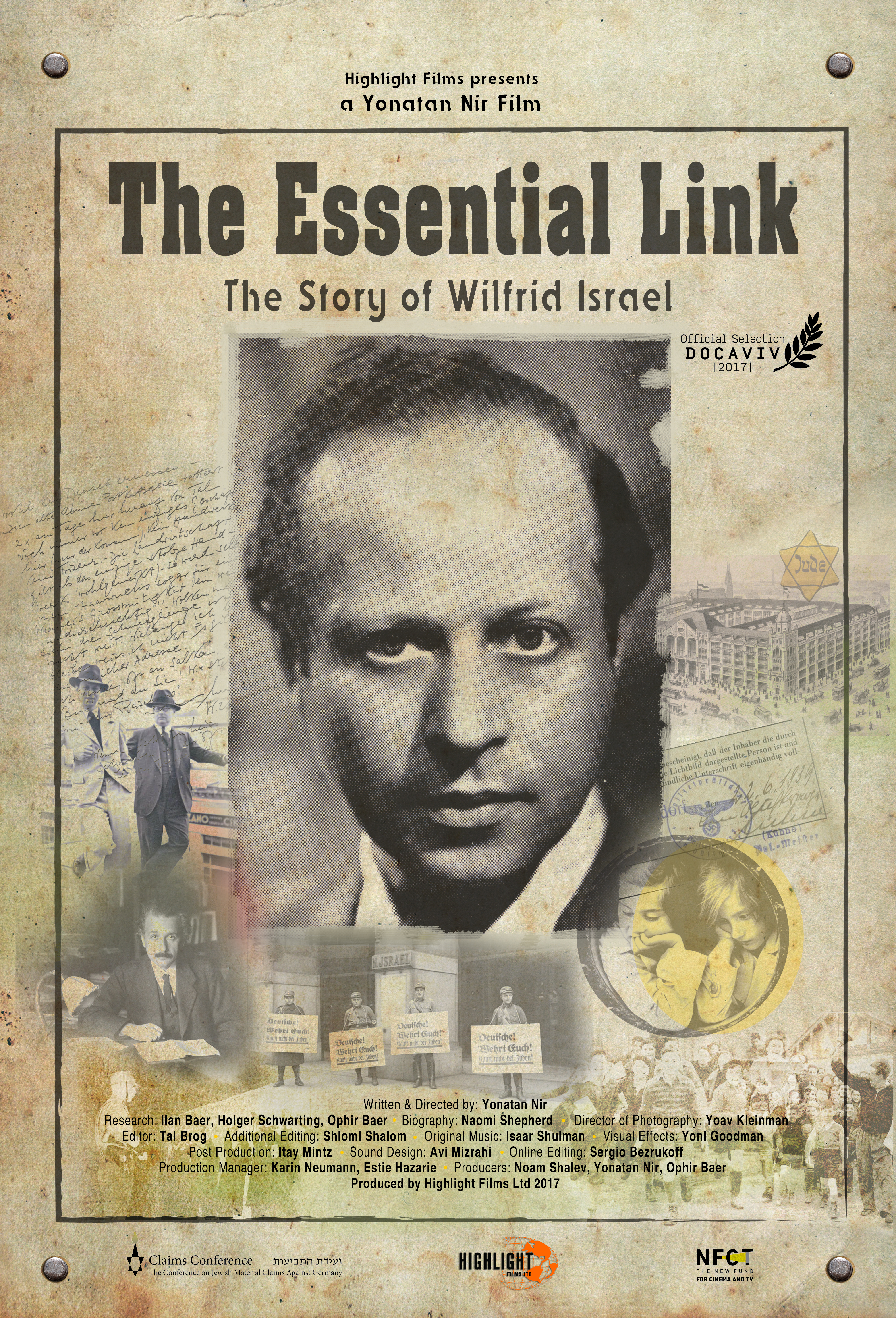 The poster was created by Tel Aviv graphic designer Madi Avishai, with material from the documentary and based on directions, provided by the creators of the documentary film.